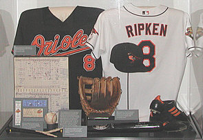 Cal Ripken, Jr. Exhibit at the National Baseball Hall of Fame and Museum, Cooperstown, New York, shortly after his induction in 2007